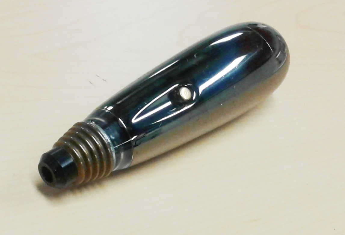 Laser pointer created by Tullio Proni of Isher Artifacts, circa 1995. Nickel-plated aluminum, brass, and acrylic plastic. Houses red diode laser and 9-volt battery.